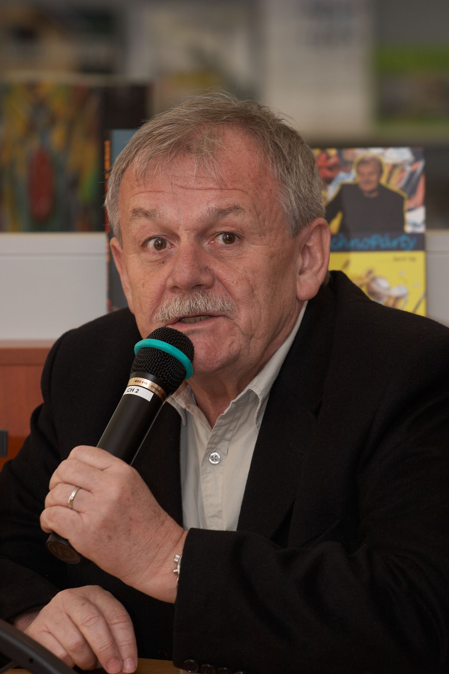 Karel Šíp during writer-reader meeting in bookstore Dobrovsky, Brno Česky: Karel Šíp na besedě v knihkupectví Dobrovský v Brně